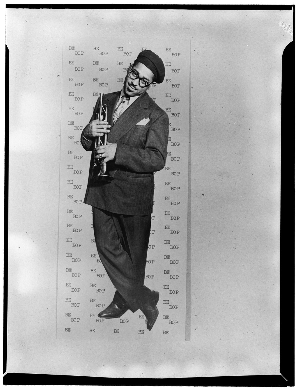 Gottlieb, William P., 1917-, photographer. [Portrait of Dizzy Gillespie, New York, N.Y., ca. May 1947] 1 negative : b&w ; 3 1/4 x 4 1/4 in. Notes: Gottlieb Collection Assignment No. 524 Purchase William P. Gottlieb Forms part of: William P. Gottlieb Collection (Library of Congress). Subjects: Gillespie, Dizzy, 1917- Jazz musicians--1940-1950. Trumpet players--1940-1950. Format: Portrait photographs--1940-1950. Film negatives--1940-1950. Rights Info: Mr. Gottlieb has dedicated these works to the public domain, but rights of privacy and publicity may apply. Repository: (negative) Library of Congress, Prints & Photographs Division, Washington D.C. 20540 USA, Part Of: William P. Gottlieb Collection (DLC) 99-401005 General information about the Gottlieb Collection is available at Persistent URL: Call Number: LC-GLB13- 1199 This work is from the William P. Gottlieb collection at the Library of Congress. Rights and restrictions. In accordance with the wishes of William Gottlieb, the photographs in this collection entered into the public domain on February 16, 2010.